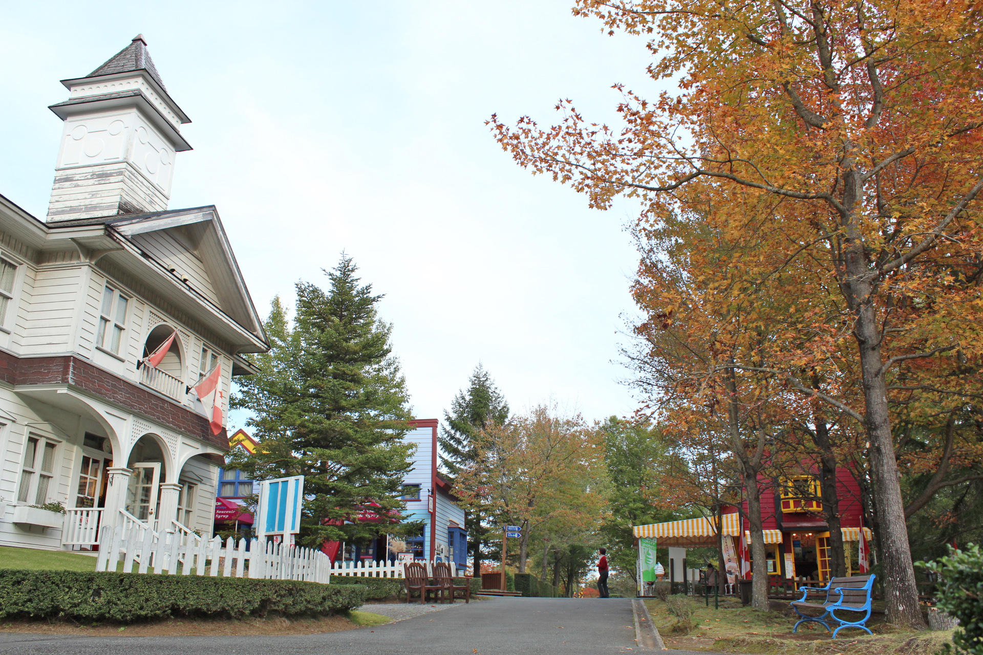 Shuzenji Nijinosato's Canadian Villag in Izu, Shizuoka Prefecture, Japan